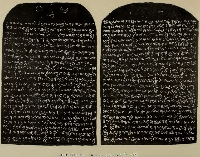 Tamil language inscriptions written in Grantha script - Dharmeshwara Temple Plates, Kondarahalli, Hoskote, near Bangalore, Karnataka - Vijaynagar Period. Copper Plates of the Vijayanagar period in possession of the temple priest, written in Tamil using Grantha script.